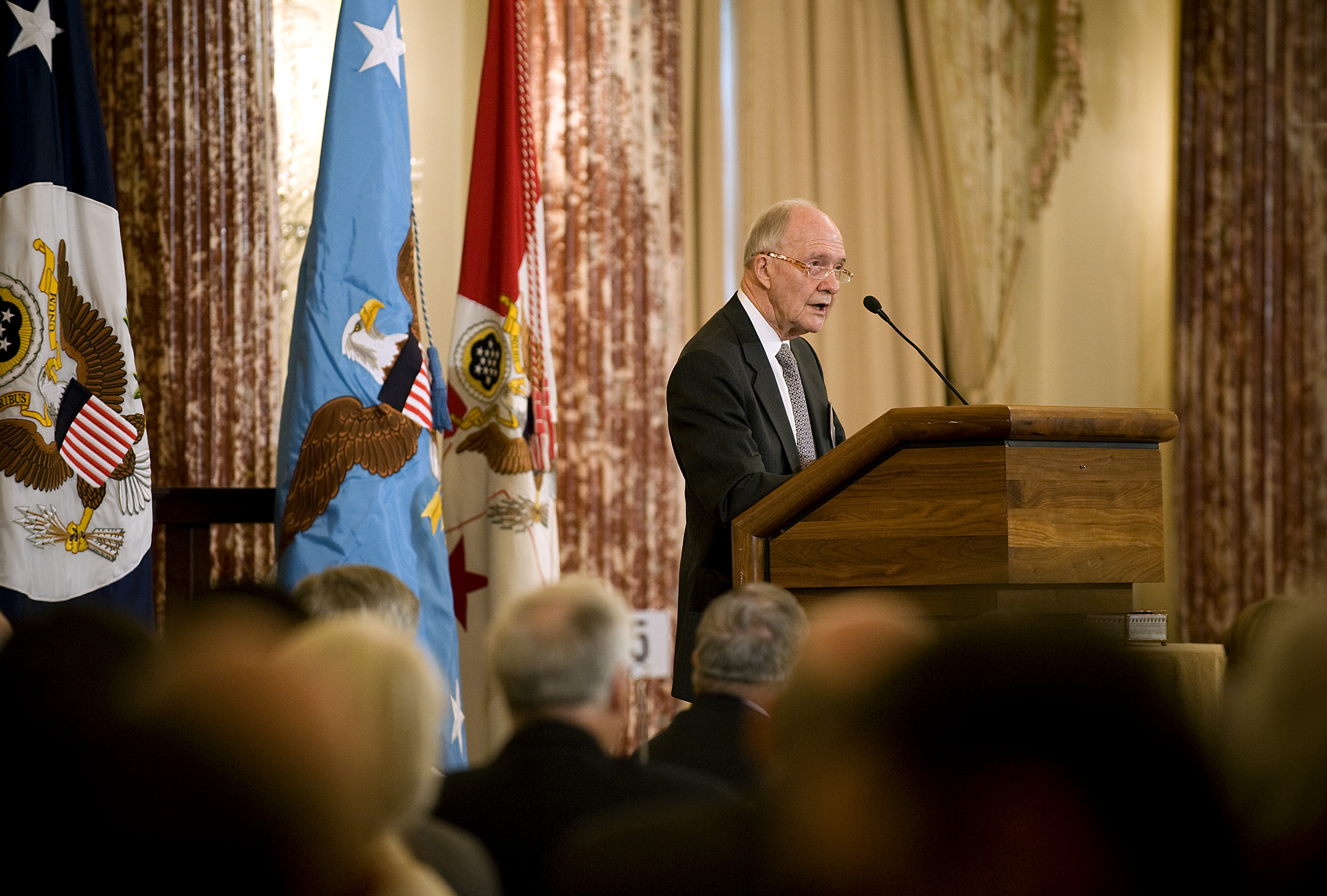 Member of the George C. Marshall Foundation Council of Advisors retired Air Force Lt. Gen. Brent Scowcroft addresses the audience during the George C. Marshall Foundation Award presentation at the State Department in Washington, D.C., Oct. 16, 2009.